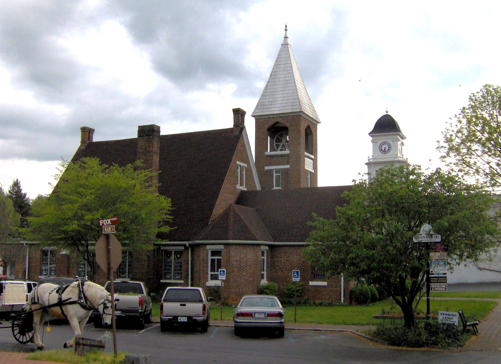 Central Christian Church in Jonesborough, Tennessee, in the southeastern United States. The church was originally a Presbyterian church built in the early 1880s. The Central Christian Church purchased the building in 1944.